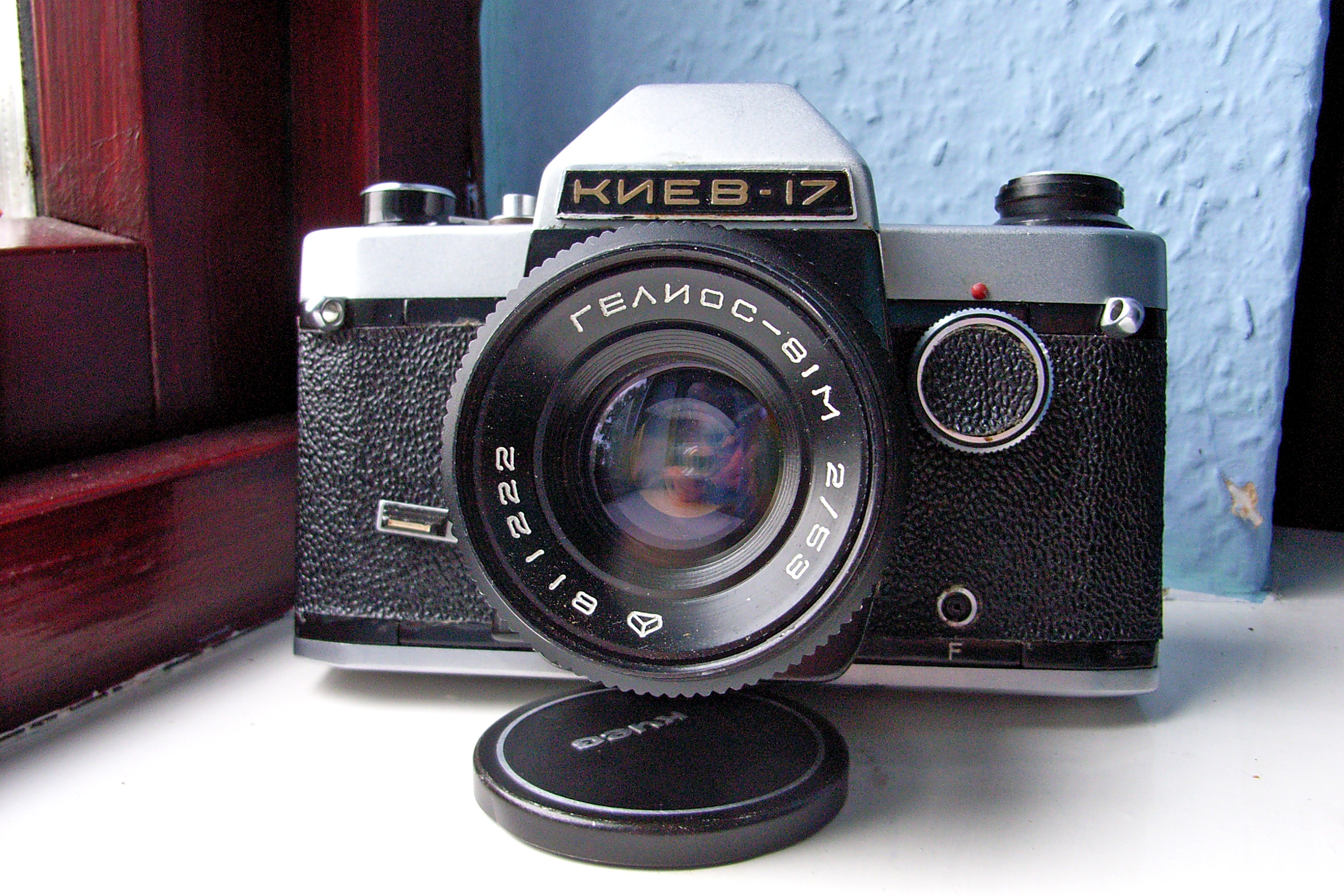 This Russian camera has a Nikon "F" lens mount and this example is fitted with a Helios 81-M f2/53mm lens.